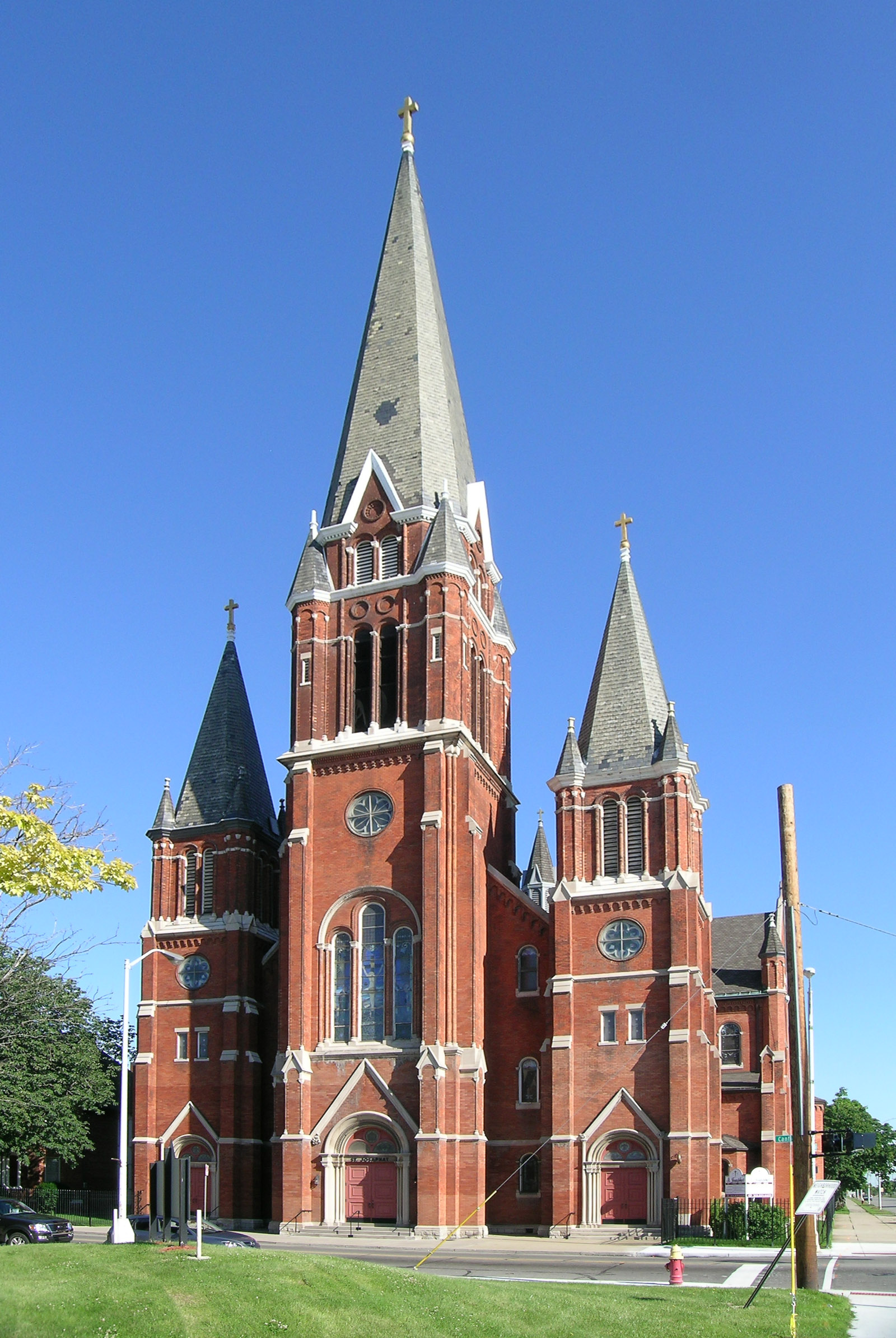 Saint Josaphat Kuntsevych Church — in Detroit, Michigan. Built in 1901, a Saint Josaphat Kuntsevych Roman Catholic Church in a Victorian blend of Gothic Revival and Romanesque Revival styles. On the National Register of Historic Places.